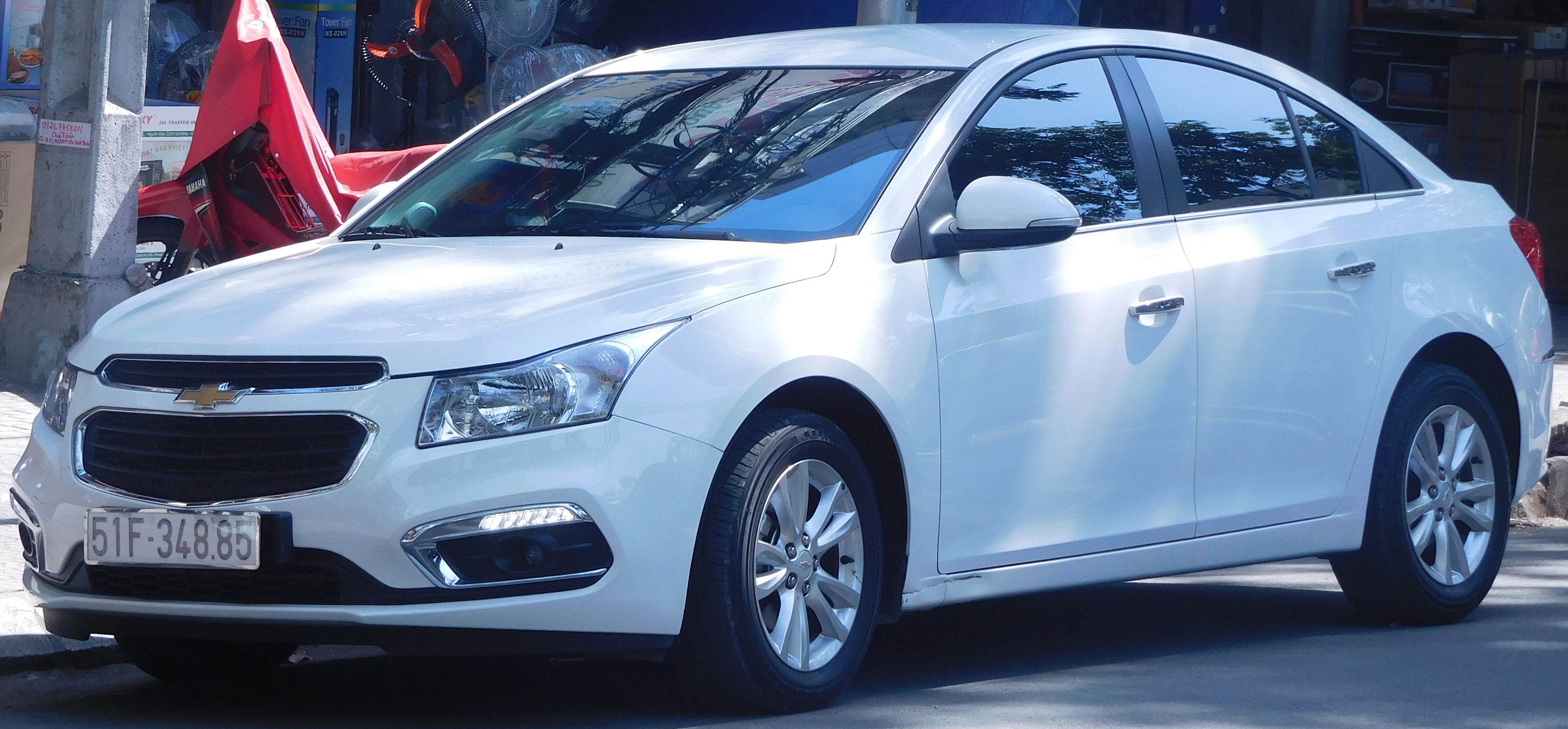 2015 Chevrolet Cruze LT facelift, photographed in Ho Chi Minh City Vietnam.